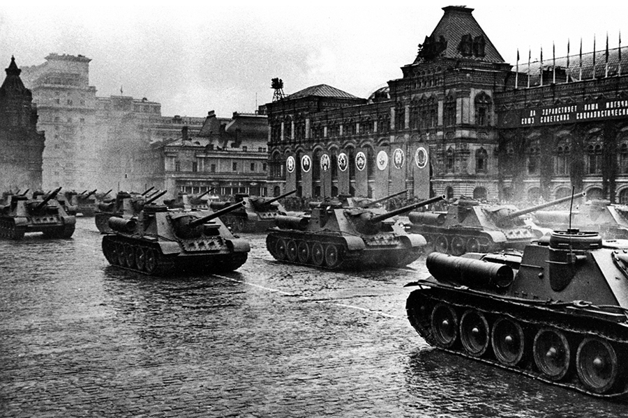 Soviet Victory Parade on Red Square